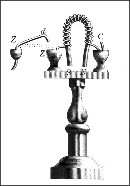 Drawing of the first electromagnet, invented in 1824 by British scientist William Sturgeon. This was his original drawing from his 1824 paper to the British Royal Society of Arts, Manufactures, and Commerce. It was made of 18 turns of bare copper wire (insulated wire had not been invented) on a U-shaped lacquered iron core about 1 ft (30 cm) long and 1/2 inch (13 mm) diameter. When the wires were connected to a single cell copper-zinc-acid battery, the electromagnet could support 9 pounds. The little cups contain mercury and were an early method of making an electrical contact between wires. The one on the left acts as a power switch. Alterations to image: converted from JPG to 32color PNG. (Detailed information is from Sylvanus P. Thompson (1891) Lectures on the Electromagnet, W.J. Johnson Co., New York, p.17-19)